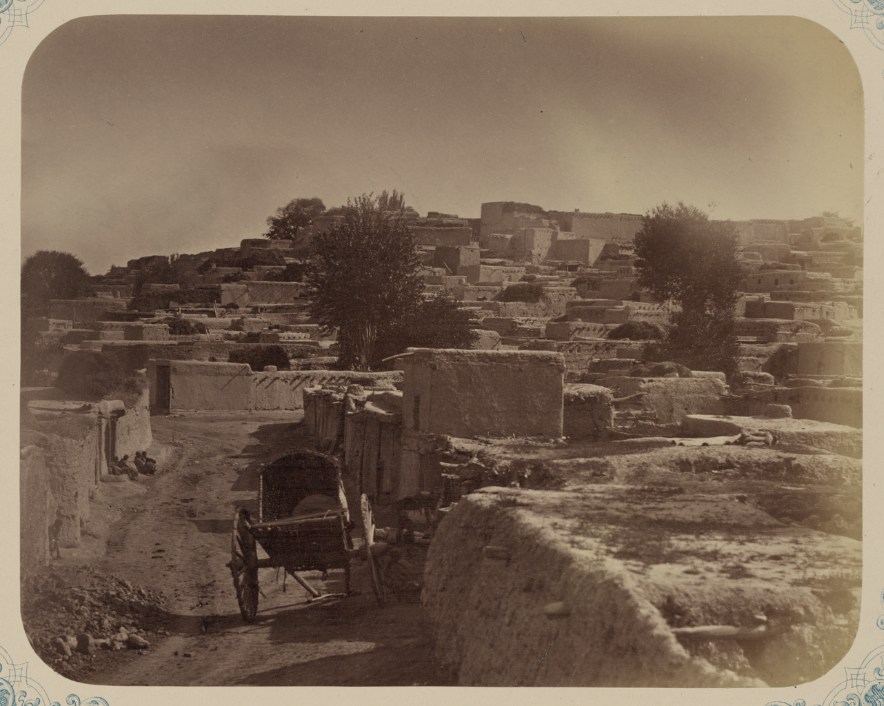 This photograph is from the ethnographical part of Turkestan Album, a comprehensive visual survey of Central Asia undertaken after imperial Russia assumed control of the region in the 1860s. Commissioned by General Konstantin Petrovich von Kaufman (1818–82), the first governor-general of Russian Turkestan, the album is in four parts spanning six volumes: “Archaeological Part” (two volumes); “Ethnographic Part” (two volumes); “Trades Part” (one volume); and “Historical Part” (one volume). The principal compiler was Russian Orientalist Aleksandr L. Kun, who was assisted by Nikolai V. Bogaevskii. The album contains some 1,200 photographs, along with architectural plans, watercolor drawings, and maps. The “Ethnographic Part” includes 491 individual photographs on 163 plates. The photographs show individuals representing the different peoples of the region (Plates 1–33); daily life and rituals (Plates 34–91); and views of villages and cities, street vendors, and commercial activities (Plates 92–163). Cities and towns; Ethnographic photographs; Photographic surveys; Wagons